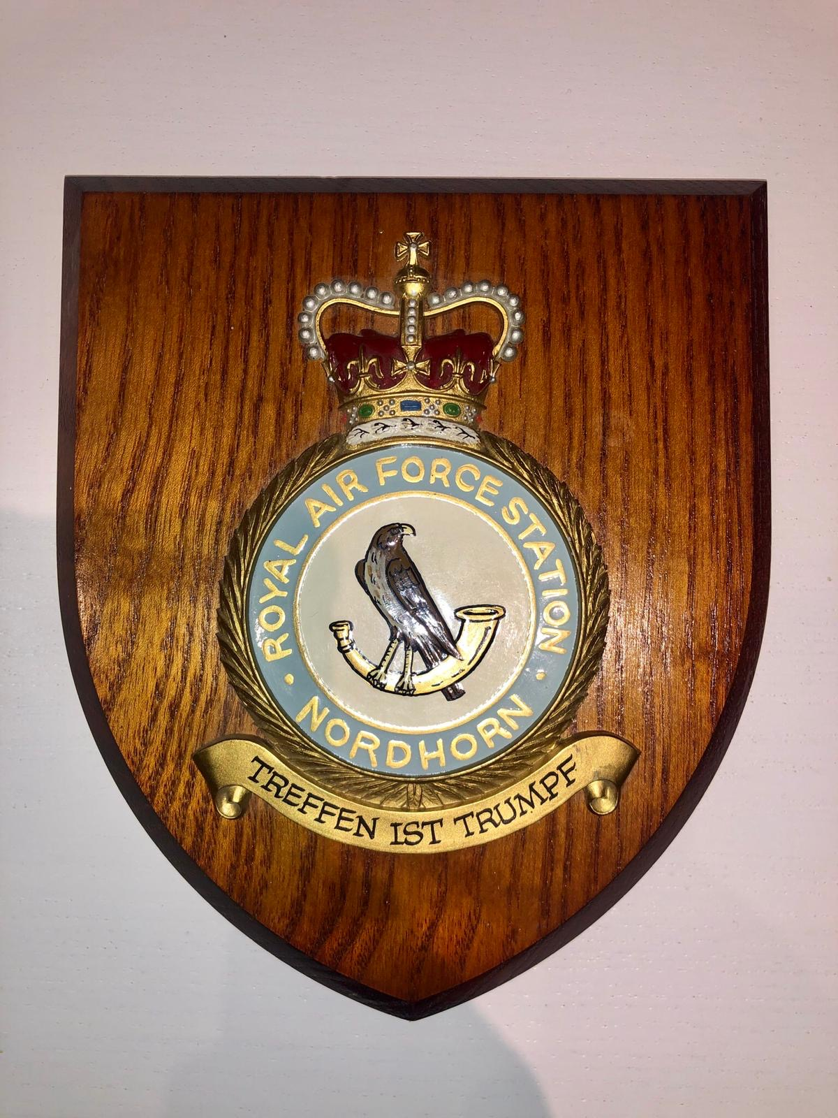 Coat of Arms of Royal Air Force Station NORDHORN ("Nordhorn Range") from ca. 1945 until passing it over to the Bundeswehr (Federal Forces), which gave it the name "Luft-/Boden Schießplatz Nordhorn. The unit was under the command of the Royal Air Force Germany. The German slogan "Treffen ist Trumpf" roughly means "Hitting [the target] is trump".